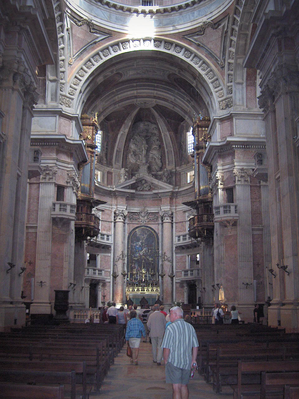 Nave and choir of the church in the Mafra National Palace; Mafra, Portugal